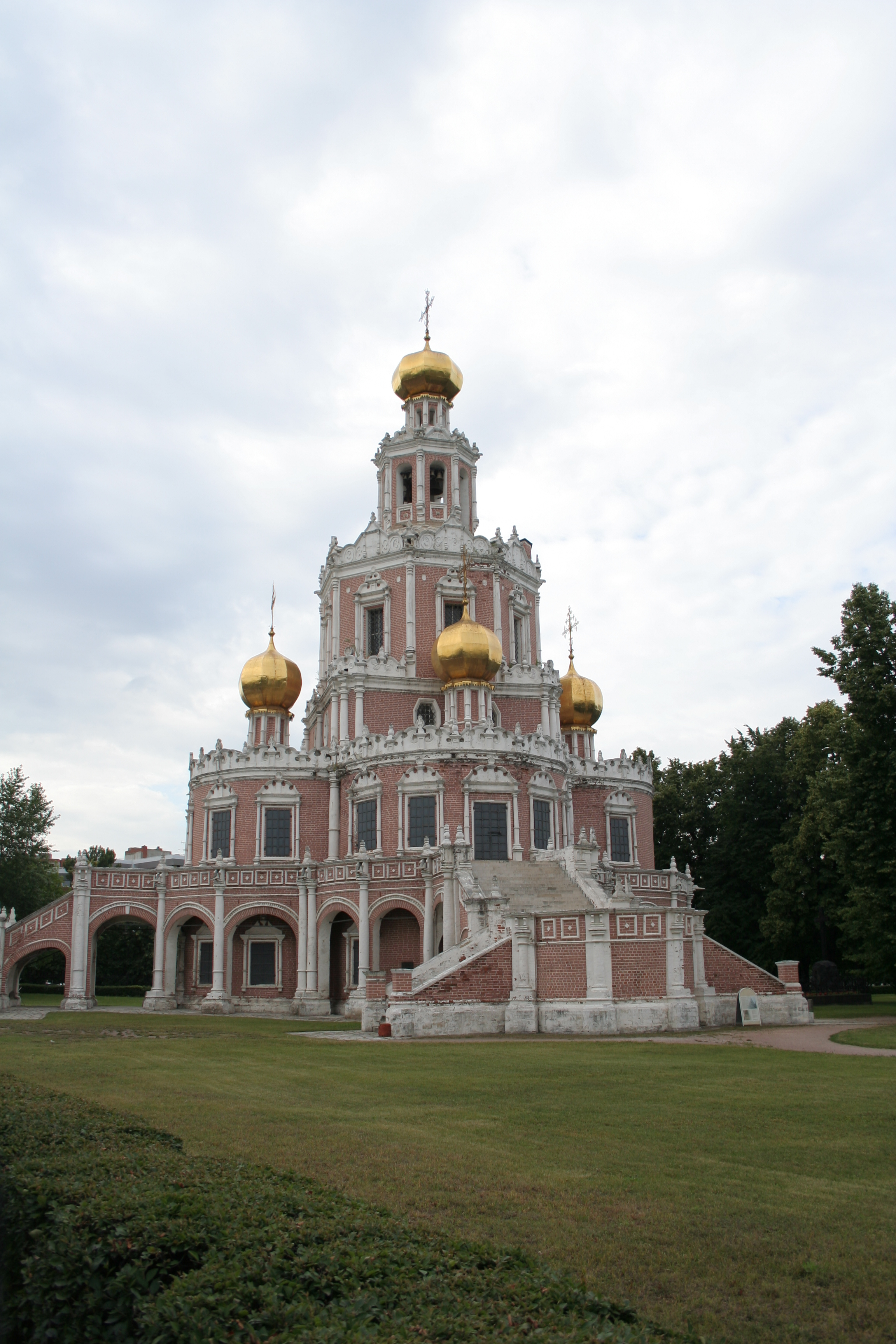 Church of the Intercession at Fili, Moscow